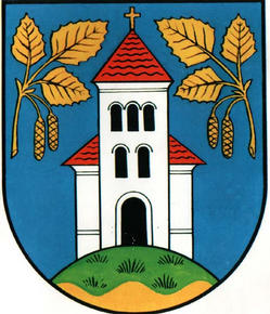 Coat of arms of Březnice in Zlín District in the Zlín Region of the Czech Republic.